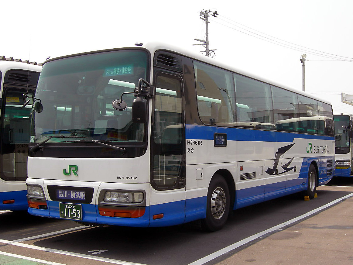 JR bus Tohoku highwaybus "Dream Yokohama-Sendai" Isuzu GALA（KL-LV781R2）